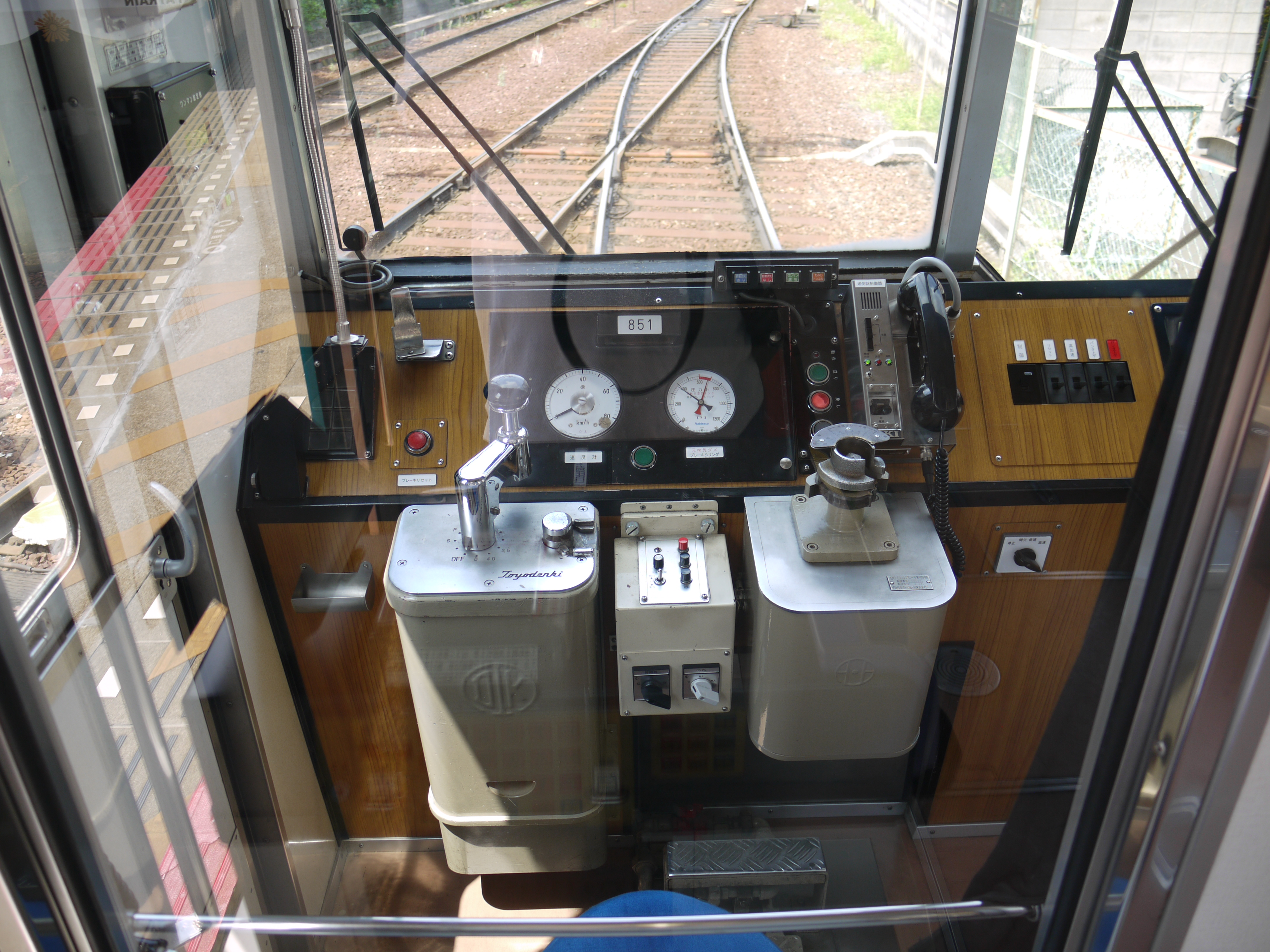 Eiden 851 cabin. This unit has wooden textured panel